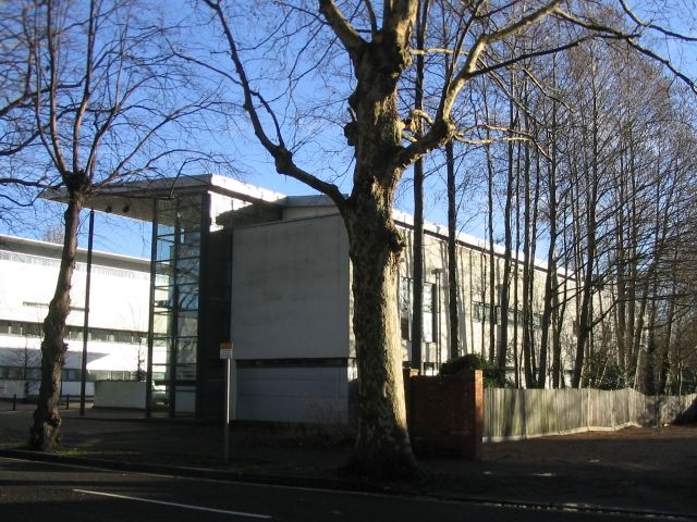 Winchester School of Art, Textile Conservation Centre. The centre, which moved into this purpose built building in 1999, is currently threatened with closure unless Southampton University either has a change of heart, or finds an additional source of income.